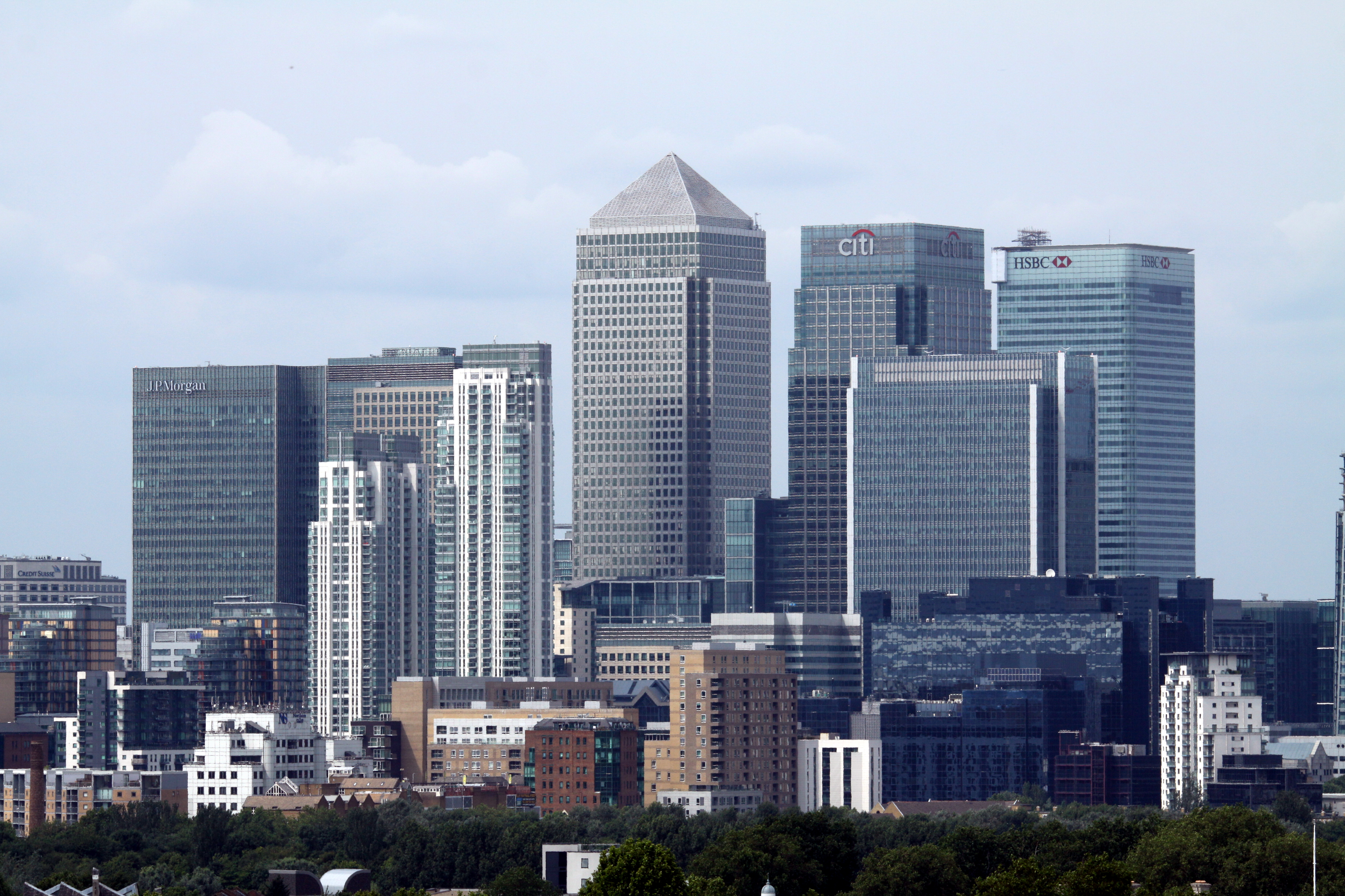 View from Greenwich Park to skydrivers in Canary Wharf in London, England, Great Britain